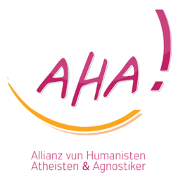 Logo of the Allianz vun Humanisten, Atheisten an Agnostiker (AHA Lëtzebuerg).